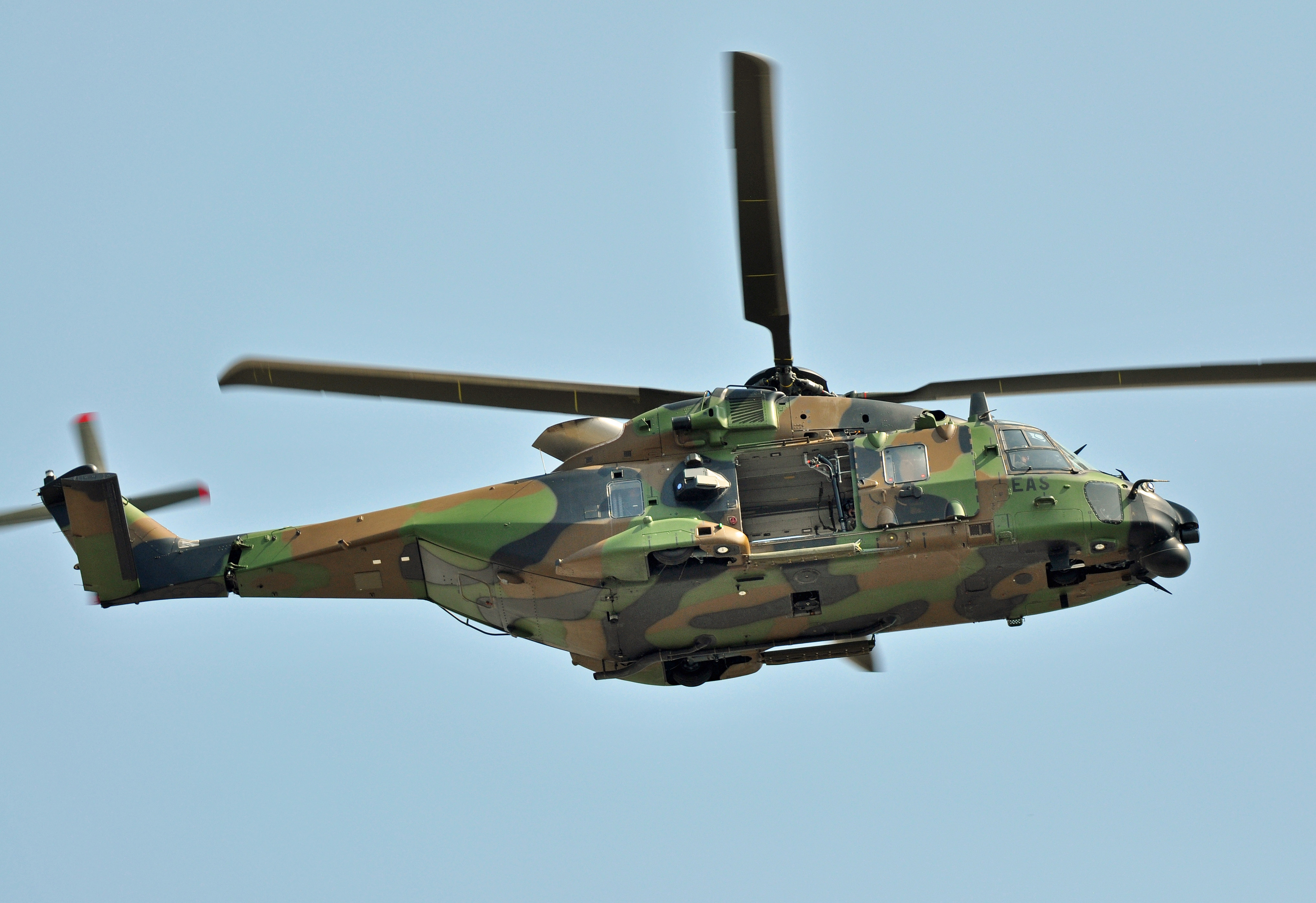 ARMEE DE TERRE 14 JUILLET 2018